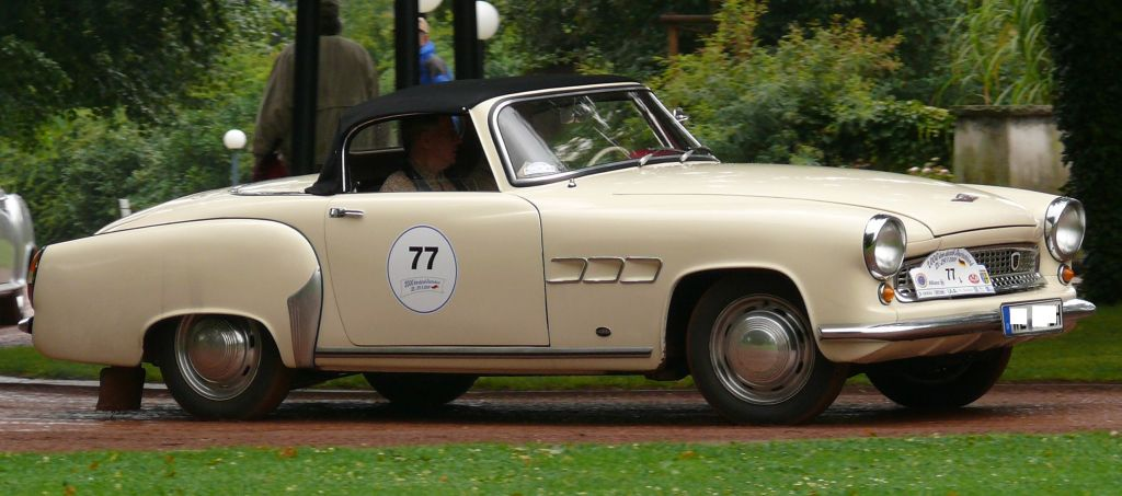 Wartburg 313 Sport-Cabriolet